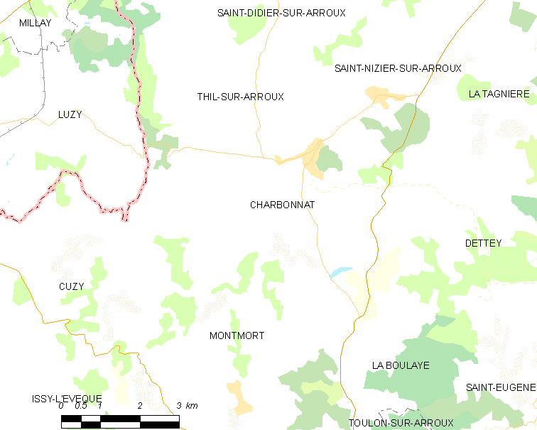 Map of French municipality